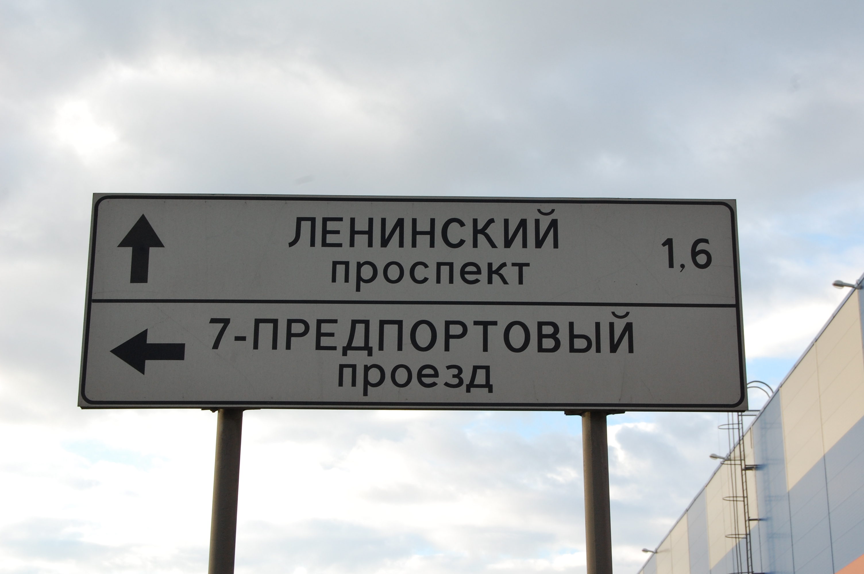 7th Predportovy Lane (Saint Petersburg). Road sign